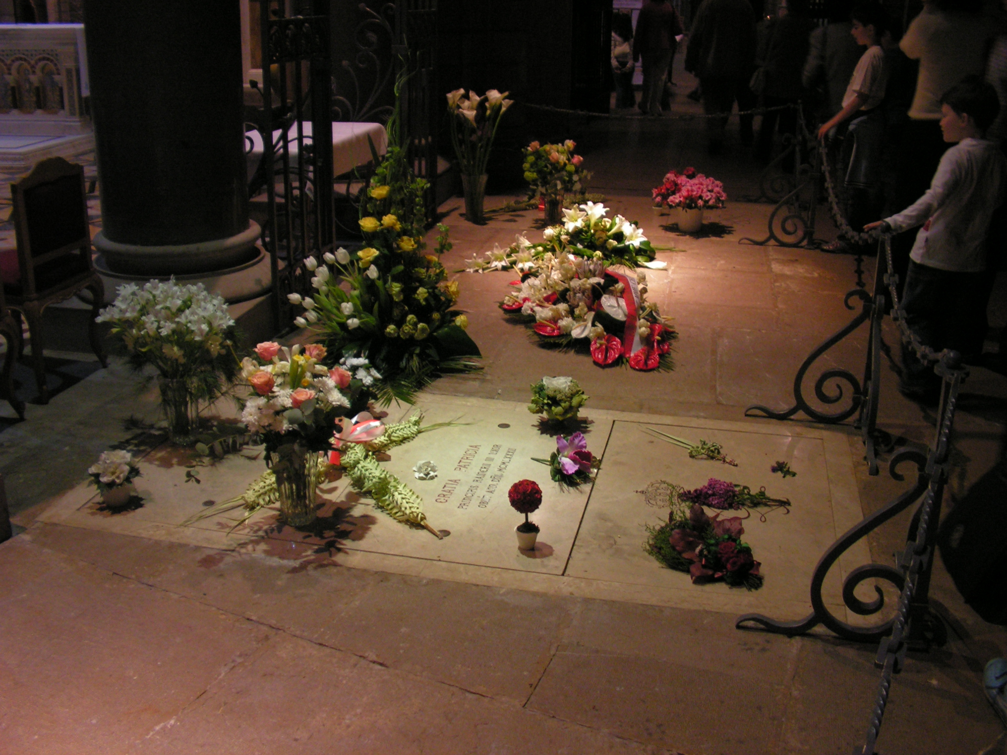 The tombs of Grace Kelly and Prince Ranieri III in the Cathedral of Monaco